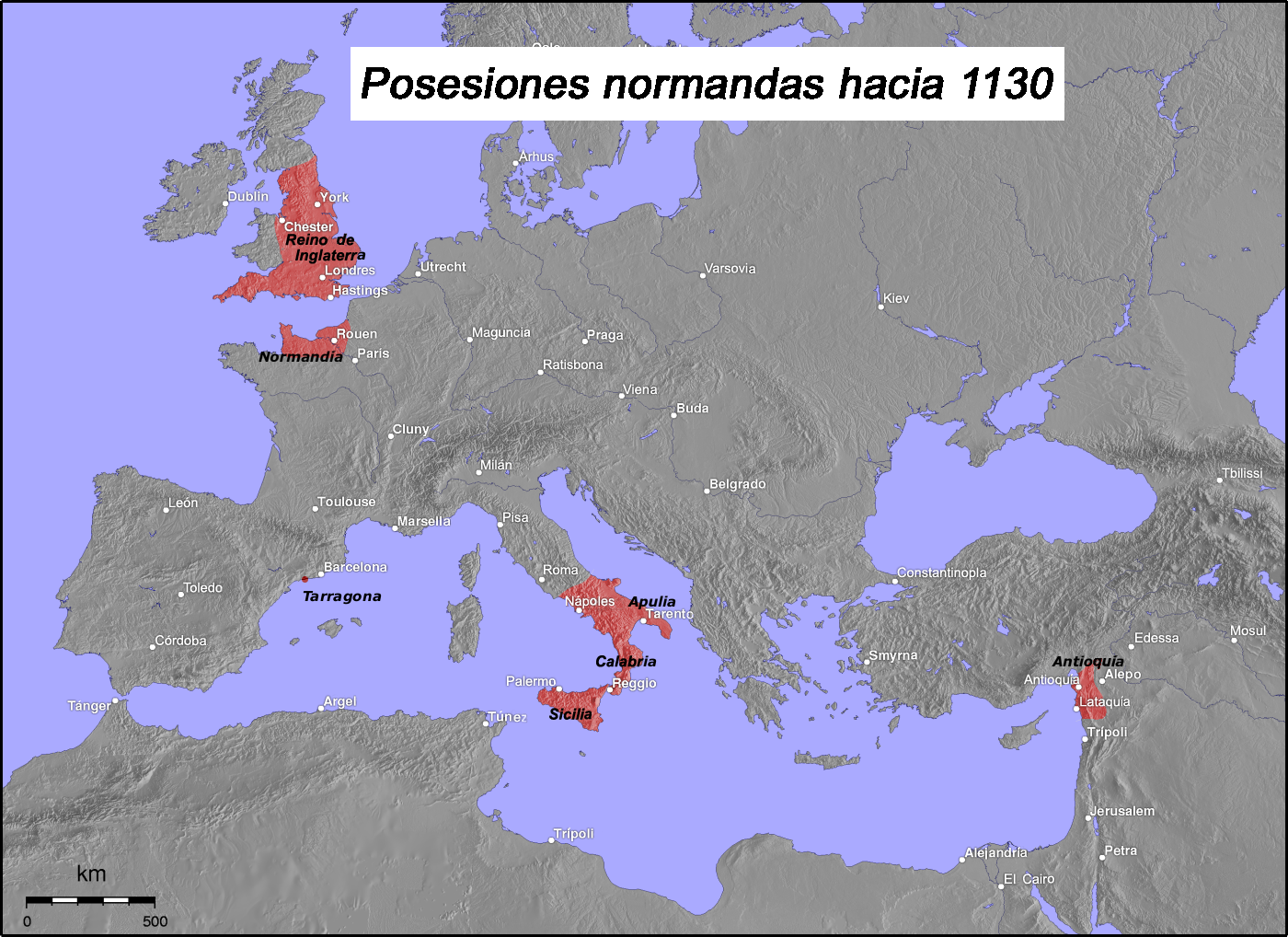 Map in Spanish of the Normans possessions in the 12th century.